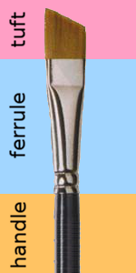 A angled paintbrush with color sections labeled "tuft", "ferrule", "handle".